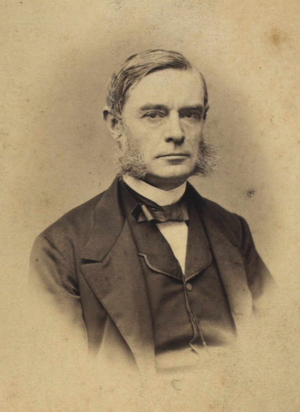 Danish Foreign Minister, diplomat George Joachim Quaade (1813-1889)